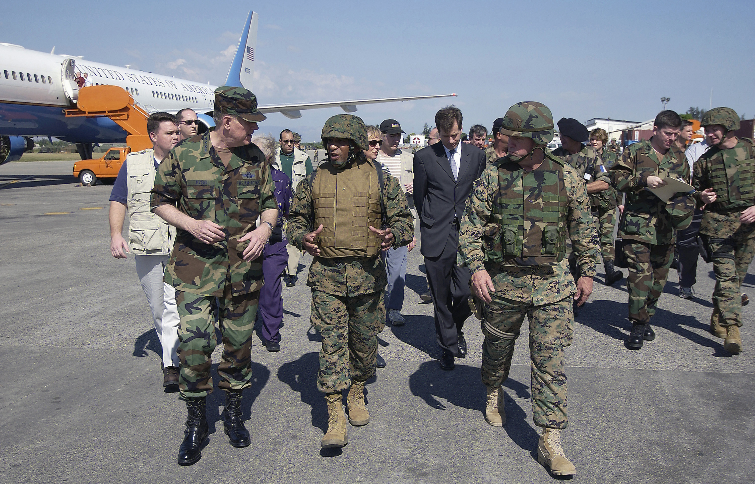 Chairman of the Joint Chiefs of Staff General Richard B. Myers talks with Brigadier General Ronald S. Coleman after disembark from a United States Air Force Boeing C-32 at Toussaint Louverture International Airport during a visit to Port-au-Prince, Haiti to inspect U.S. Troops deployed to Haiti as part of peacekeeping operations in Haiti.